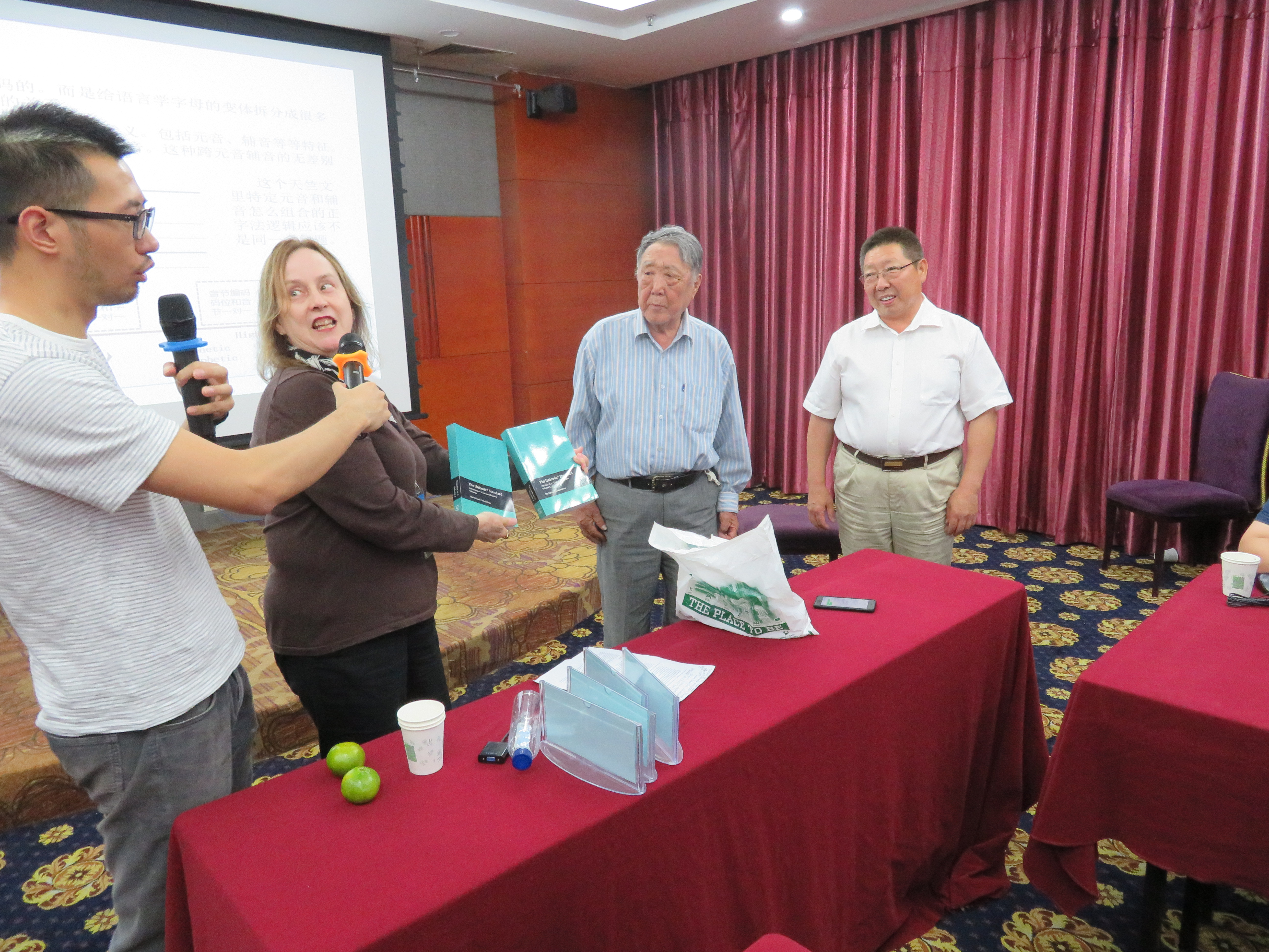 Lisa Moore (2nd left), Vice President of the Unicode Consortium and Chair of the Unicode Technical Committee, presenting Prof. Choijinzhab 确精扎布 (3rd left) and Prof. Nashunwuritu 那顺乌日图 (4th left) with copies of the Unicode Standard version 10.0 at a meeting in Hohhot, Inner Mongolia in September 2017. Also present, Liang Hai 梁海 (1st left), translating. At the Grand Hotel Portman Hohhot.